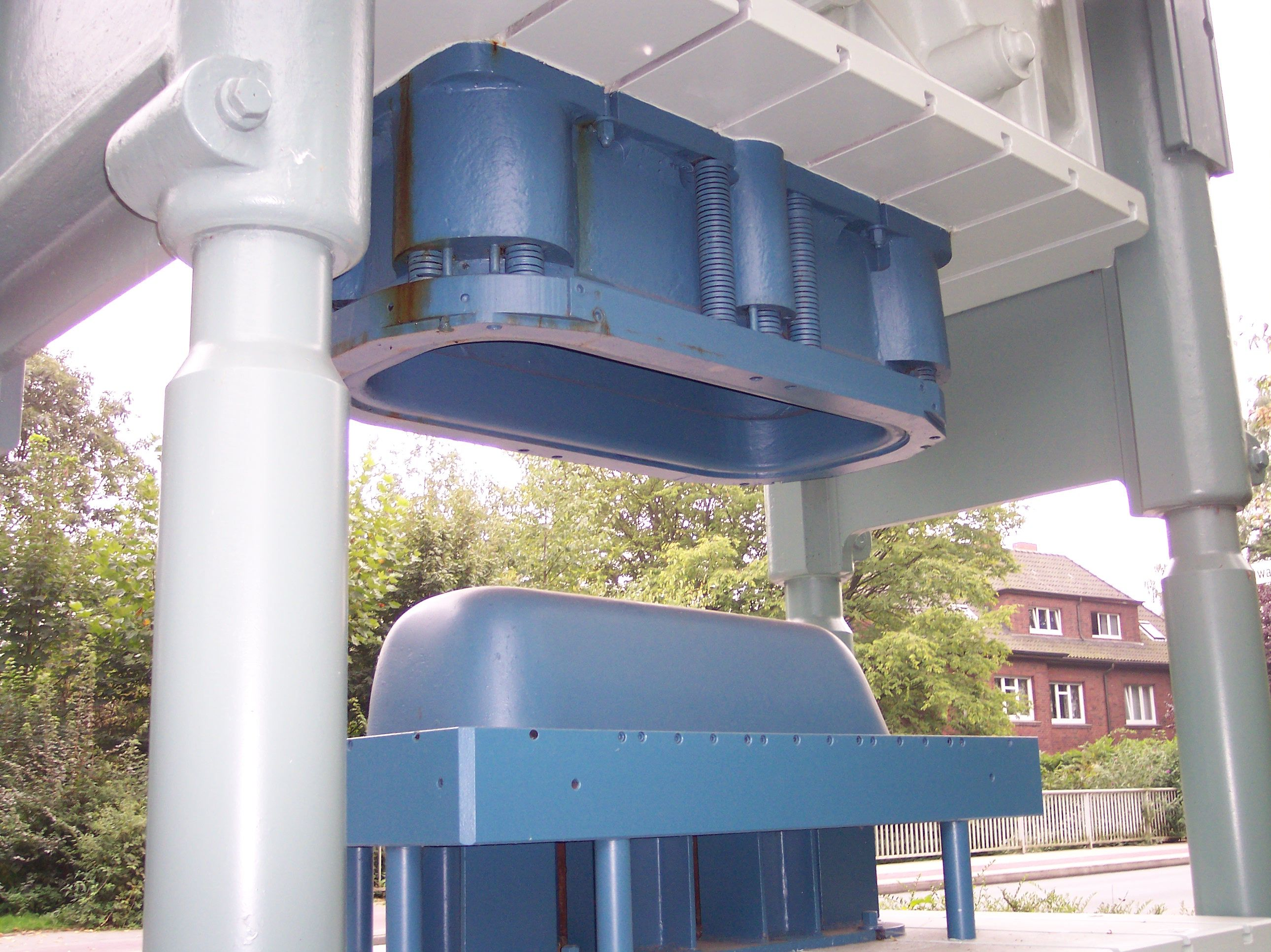 former Kaldewei deep drawing press